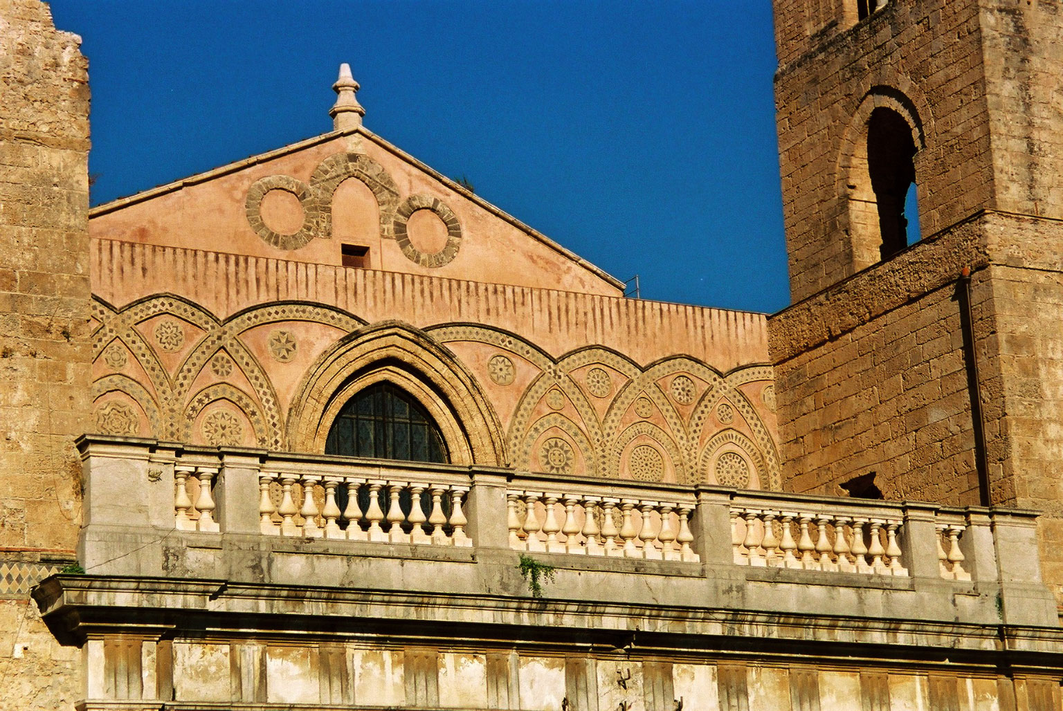 Cathedral of Monreale Arabesque ornaments at the front facade Camera Canon EOS 300V with Canon Zoom Lens EF 28-90mm Scan from the film negative